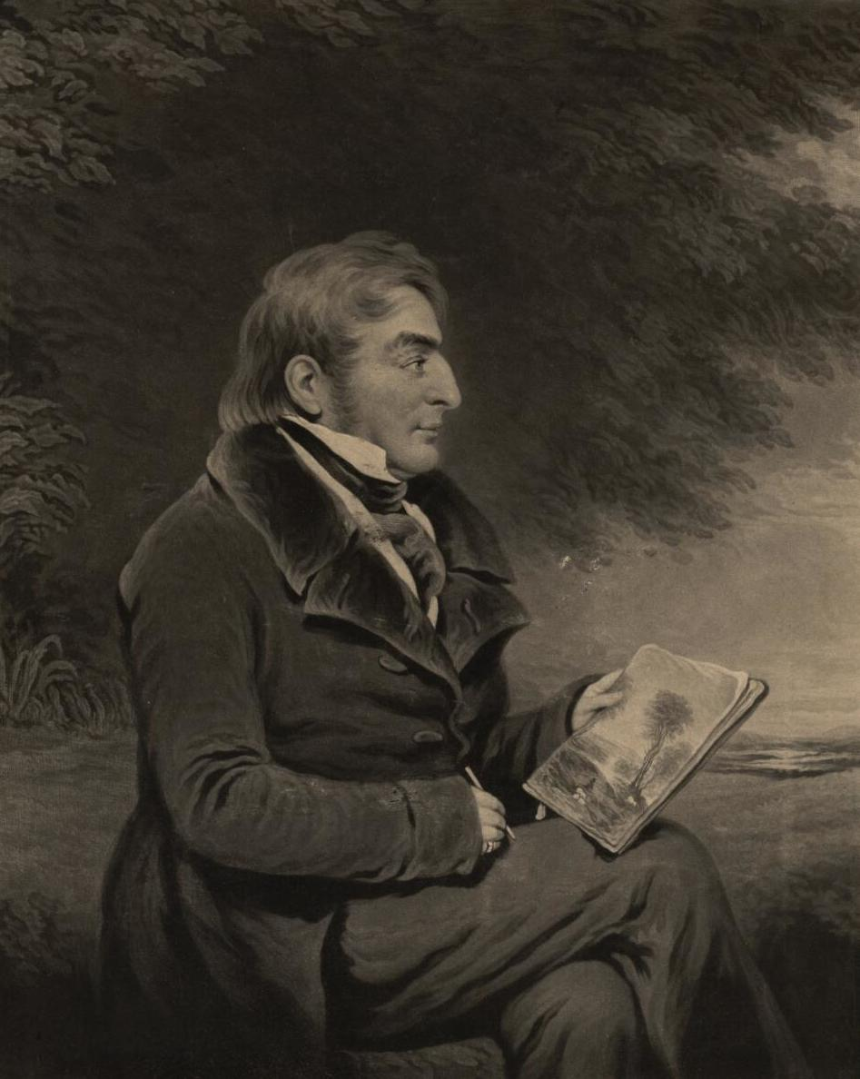 A portrait from the Welsh Portrait Collection at the National Library of Wales. Depicted person: J. M. W. Turner – British painter, water-colourist, and printmaker